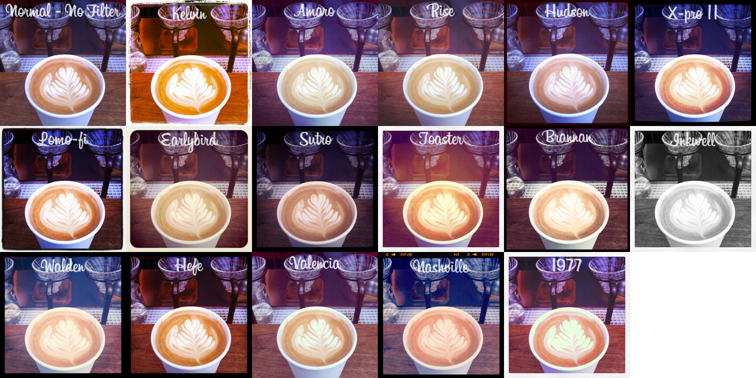 A collage of an image modified with 16 different Instagram filters. The first image is the original image without any filters applied.